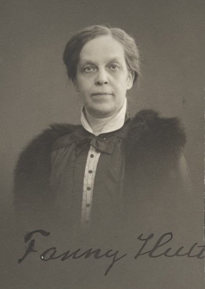 Photograph of the Finnish editor Fanny Hult (1861–1945).